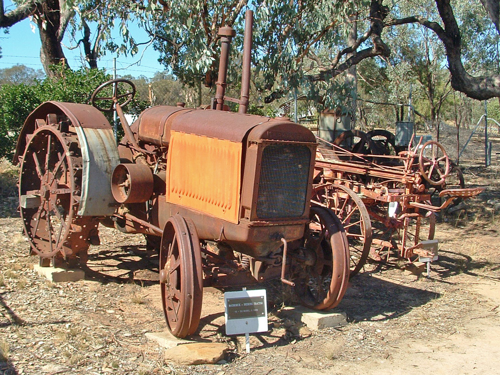 McCormick Deering Tractor, 13-33 Model E 1920s. Museum of The Riverina, Wagga Wagga